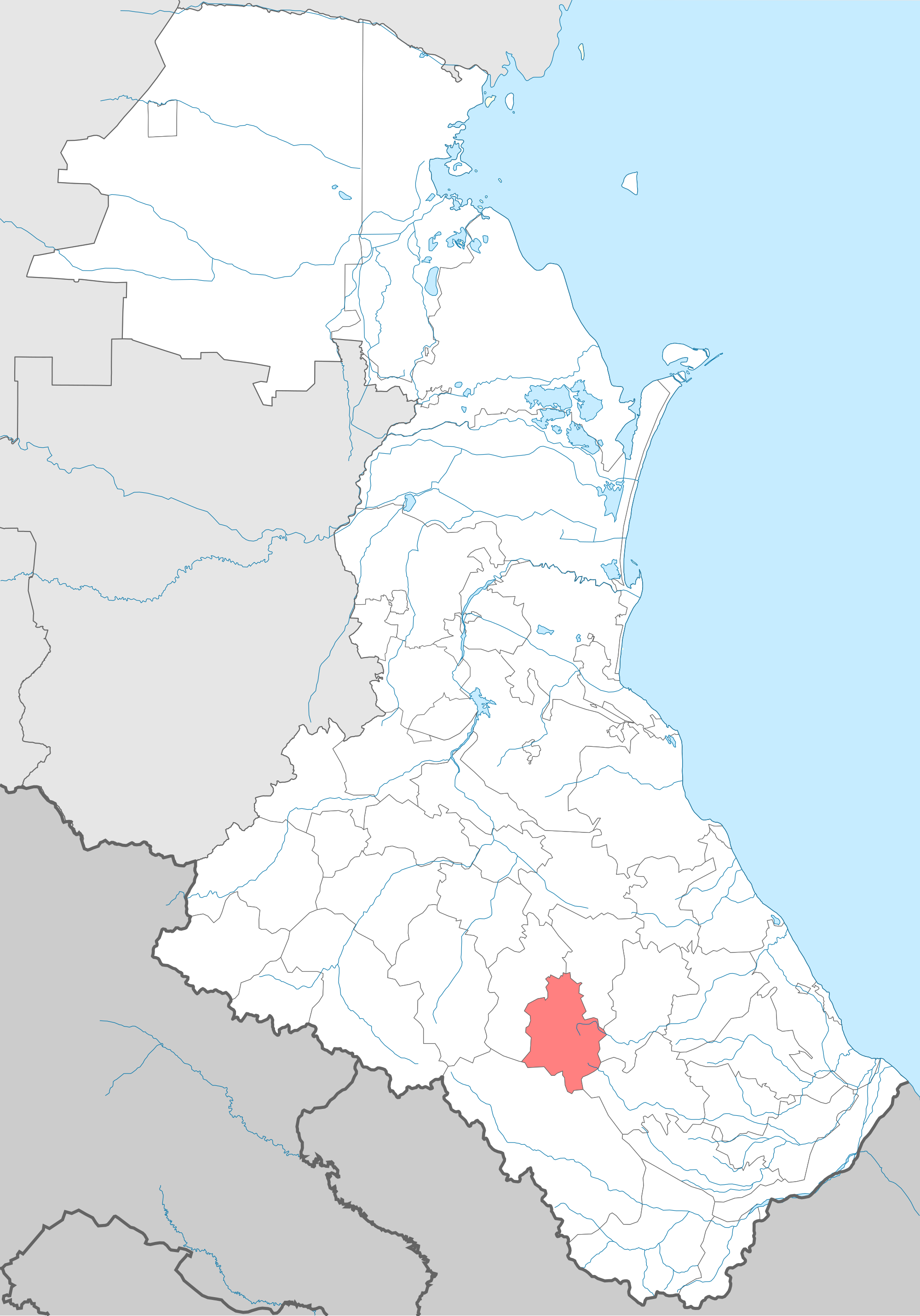 Kulinsky district locator map